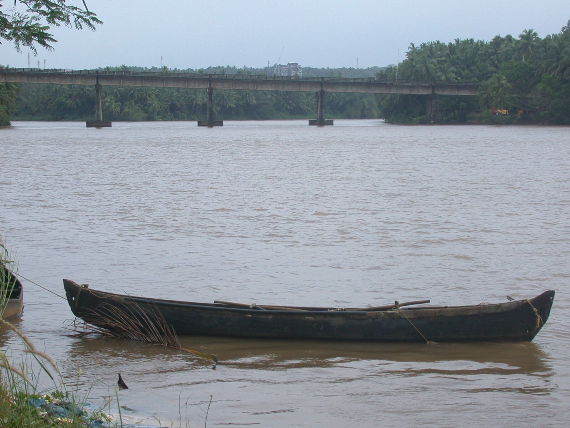 Bridge across the Chandragiri river which connects Kasaragod municipality with Chemnad Gramapanchayath.